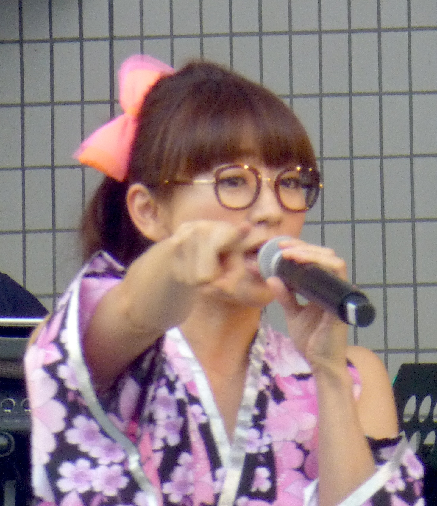 Ami Tokito (時東 ぁみ Tokitō Ami, born 25 September 1987 in Tokyo) is a Japanese pop singer and gravure idol.